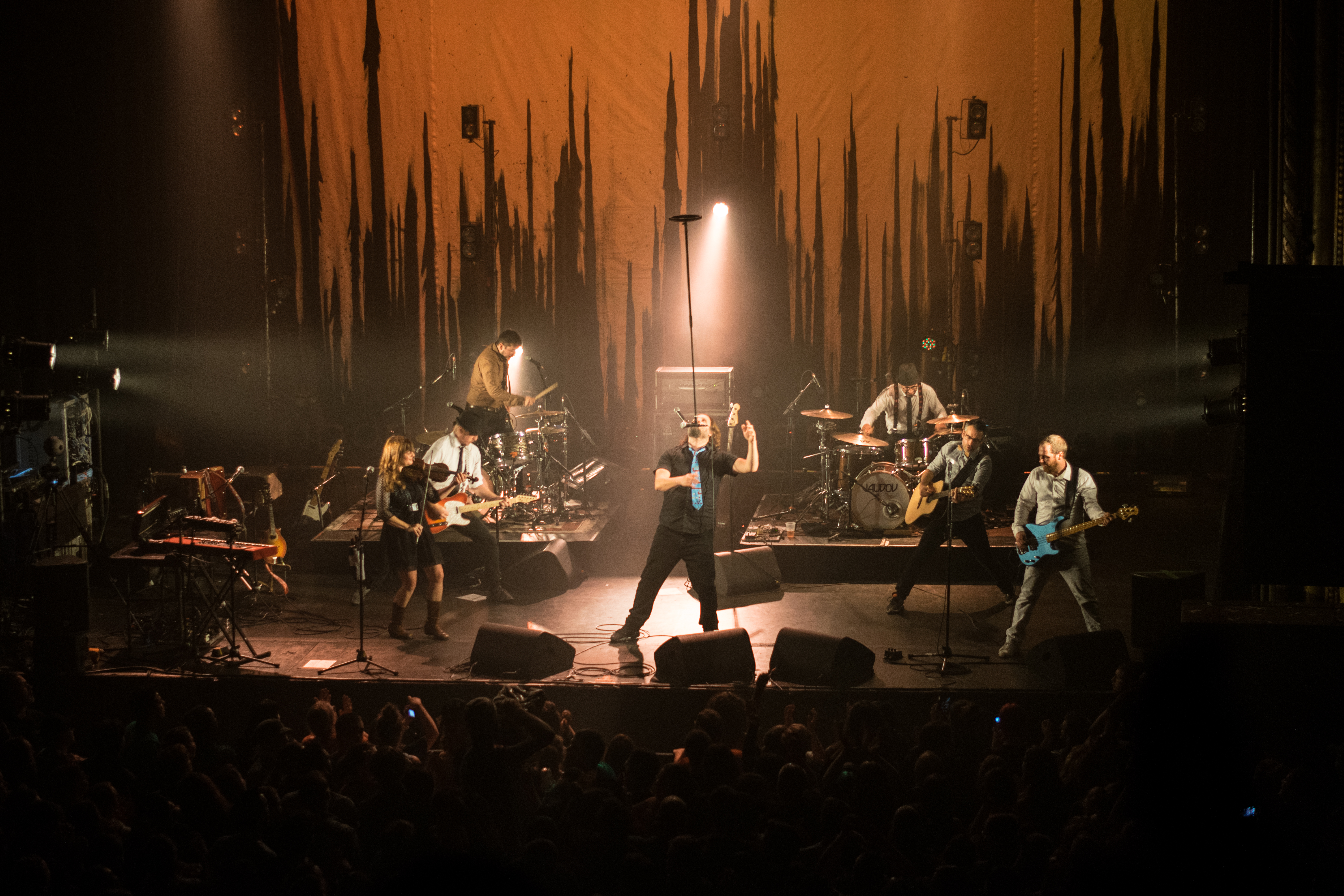 Les Cowboys Fringants in concert at the Métropolis, Montreal, Quebec, Canada.